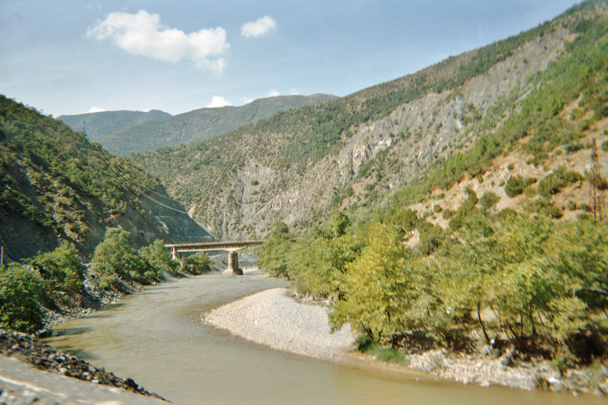 River Shkumbini between towns Librazd and Elbasan, Albania. Malagasy: Ony manasaraka ho roa an'i Albania